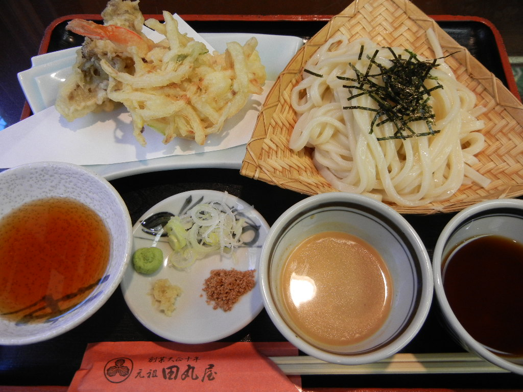 Mizusawa_Udon_Tamaruya. 日本三大うどんの1つ「水沢うどん」。田丸屋のごまだれと醤油だれの2色汁。, Shibukawa (Gunma).